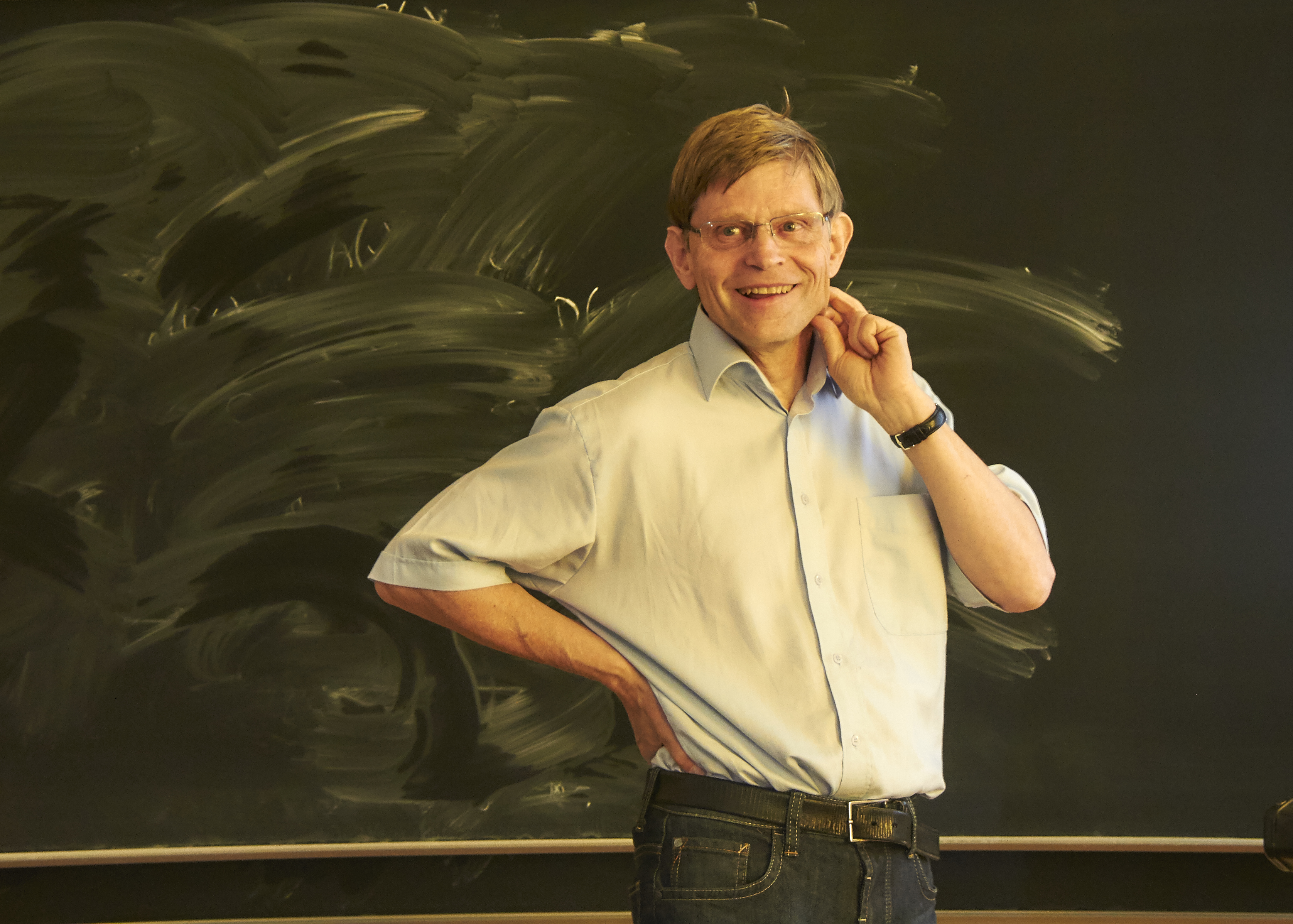 Ilkka Norros, a World expert in stochastic processes and telecommunications